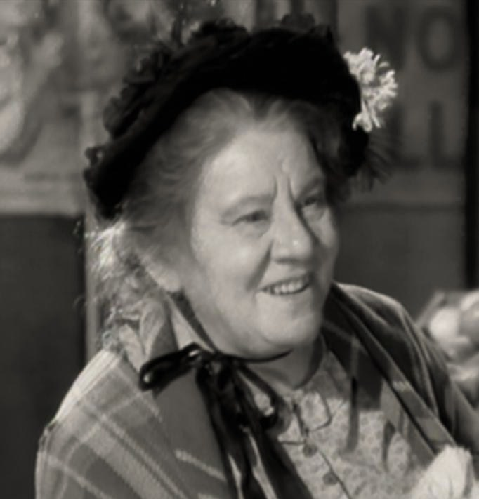 Jessie Ralph in Little Lord Fauntleroy - cropped screenshot